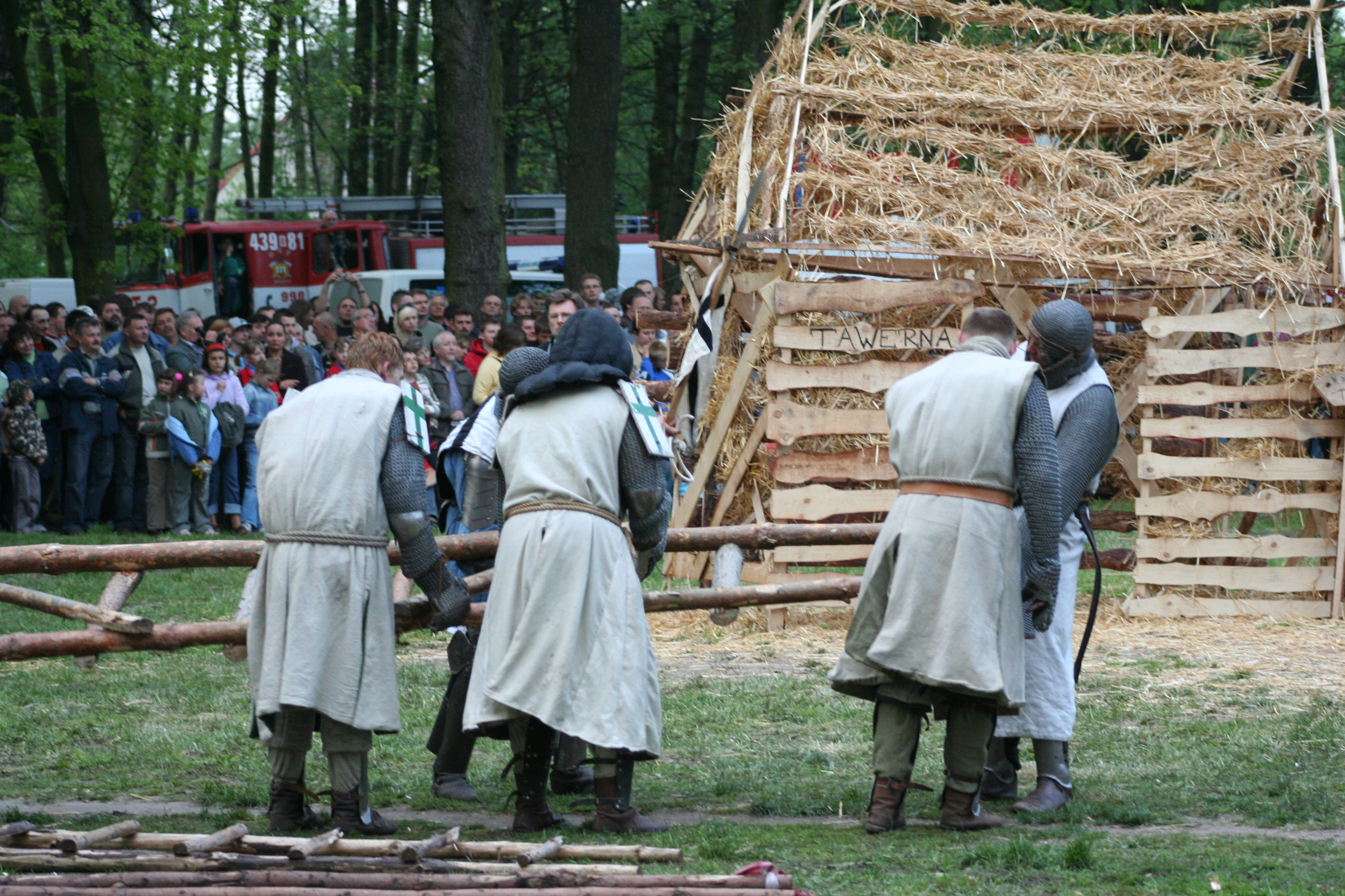 International knights' tournament 2007 in Byczyna